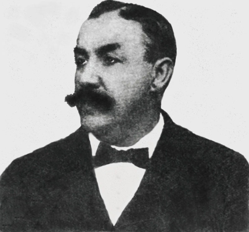 Portrait of Philadelphia City Police Detective Frank P. Geyer who was best known for his investigation of H. H. Holmes, one of America's first serial killers.